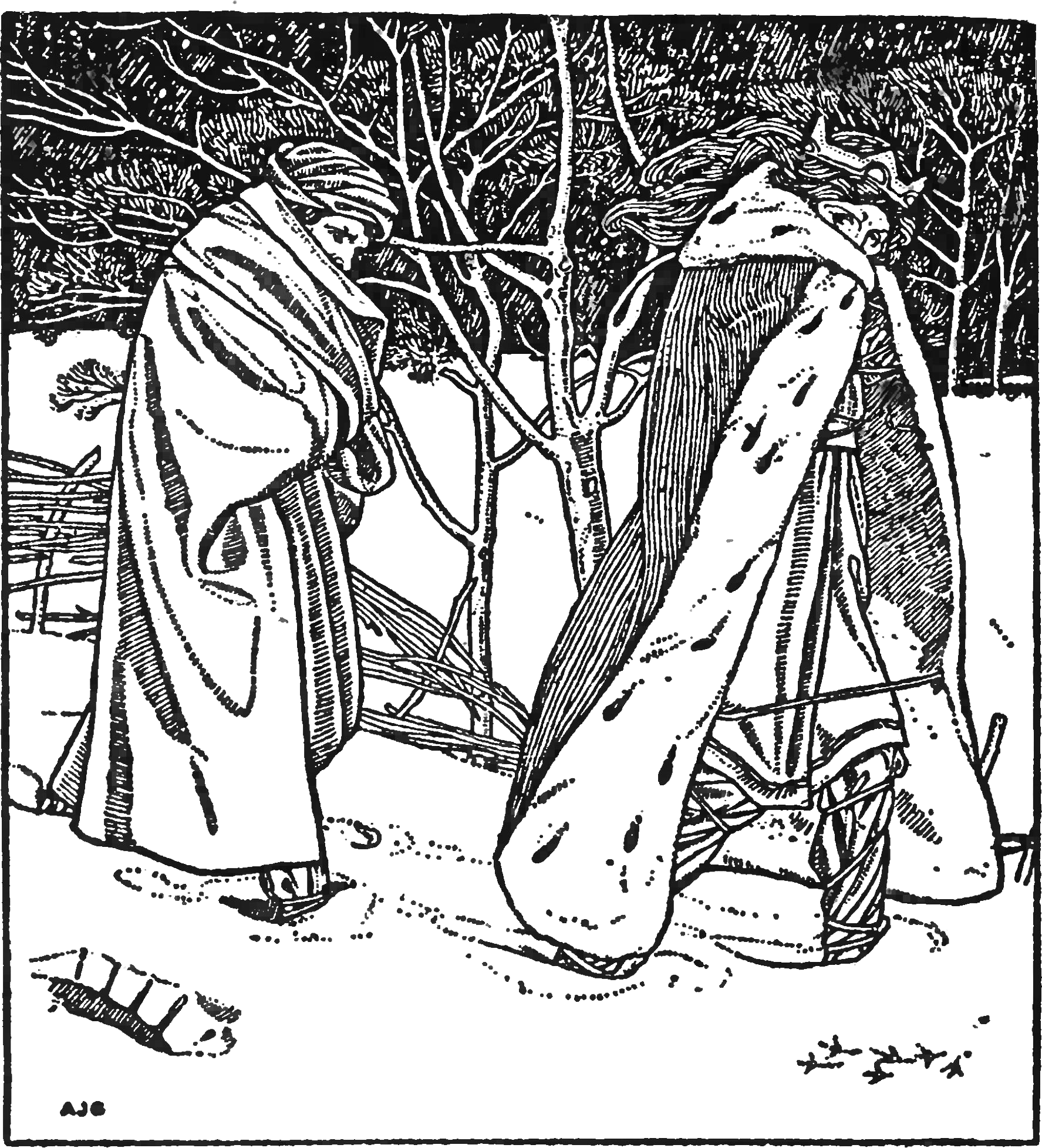 illustration for Good King Wenceslas